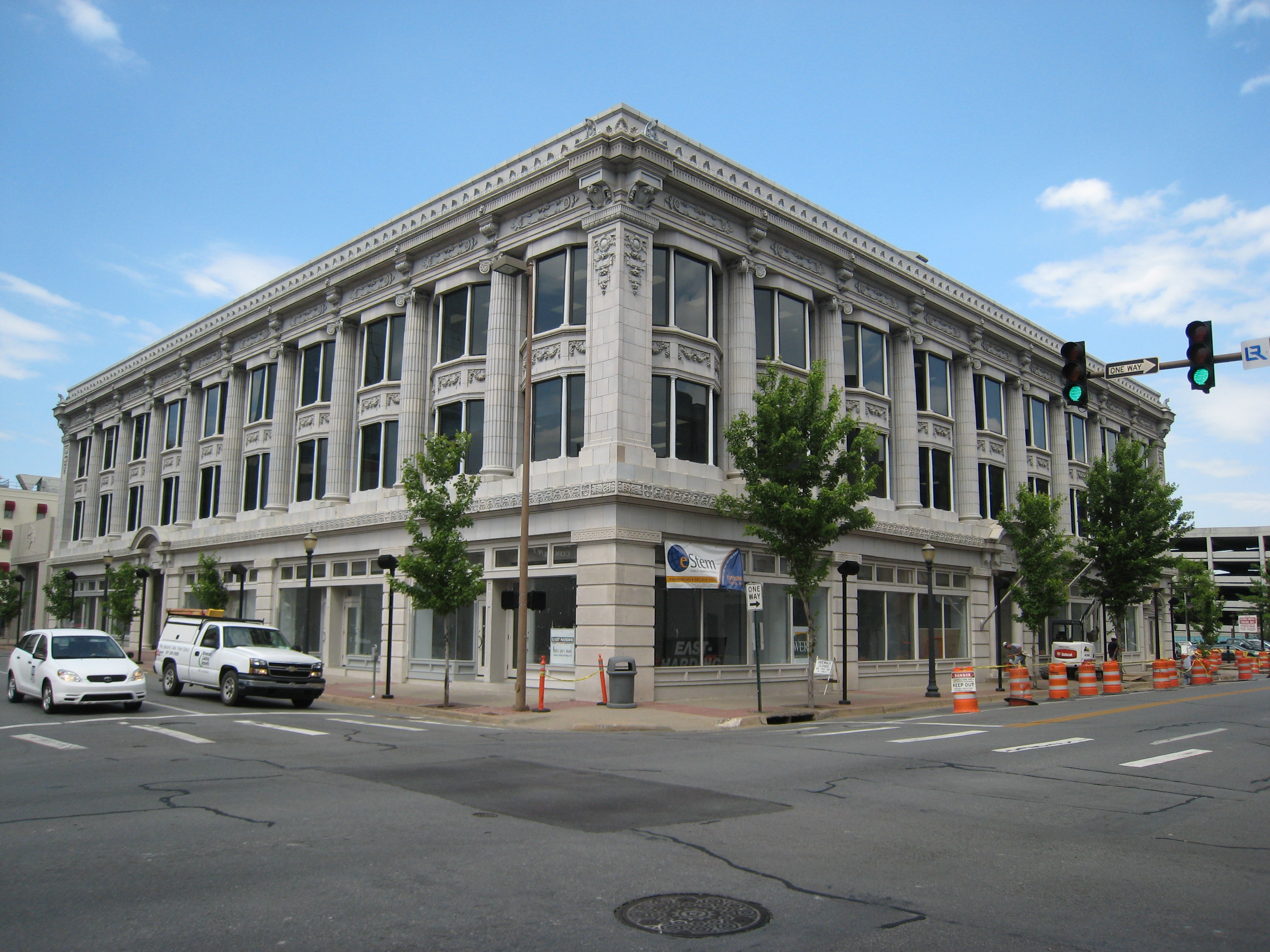 The Gazette Building, registered on the National Register of Historic Places in 1976, located in downtown Little Rock, Arkansas.